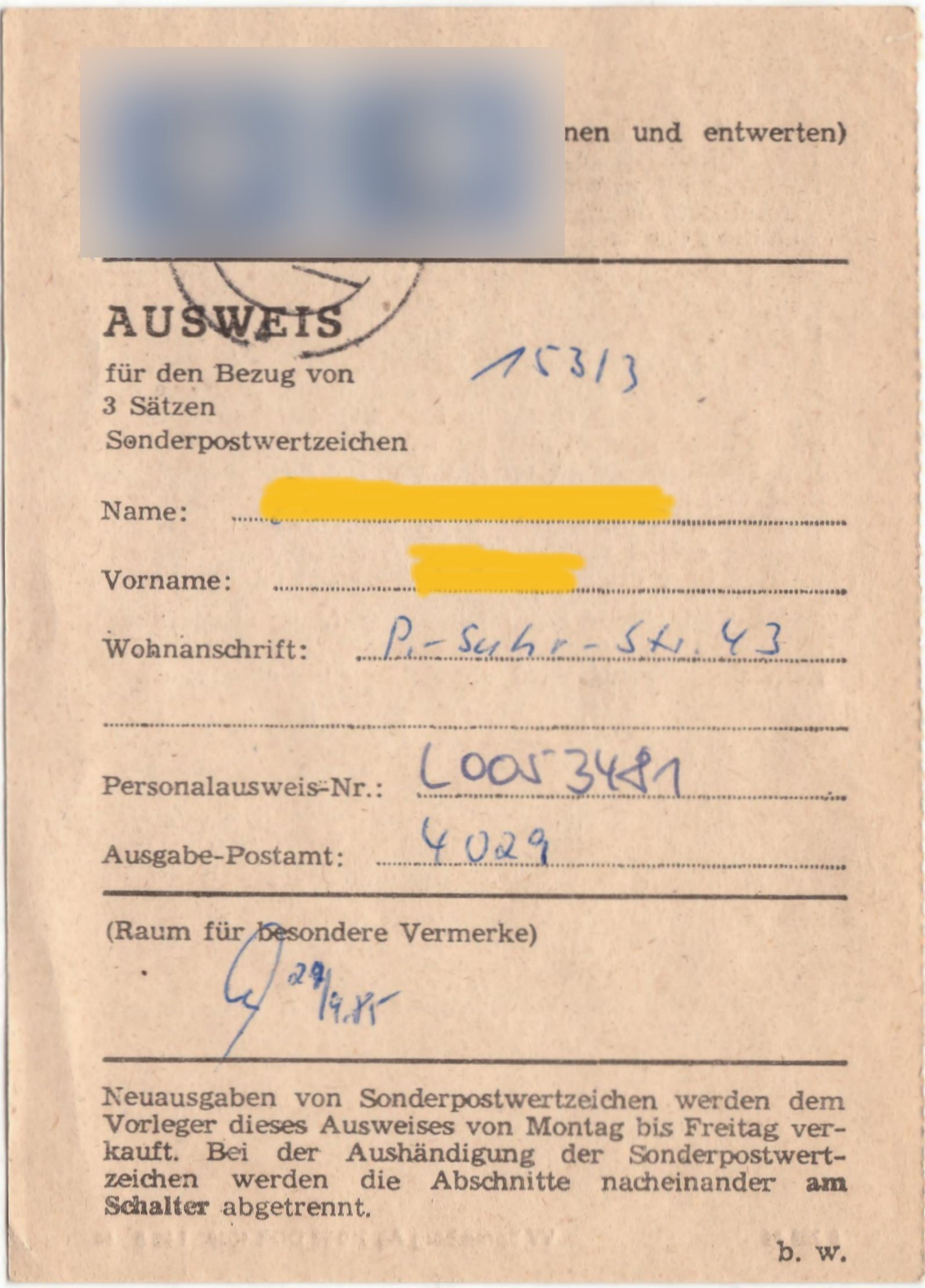 DDR-Sammlerausweis 1985, Typ II, Vorderseite, Druck ca. 1982